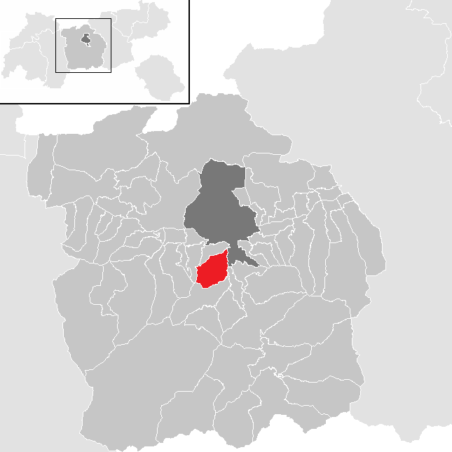 District Innsbruck Land